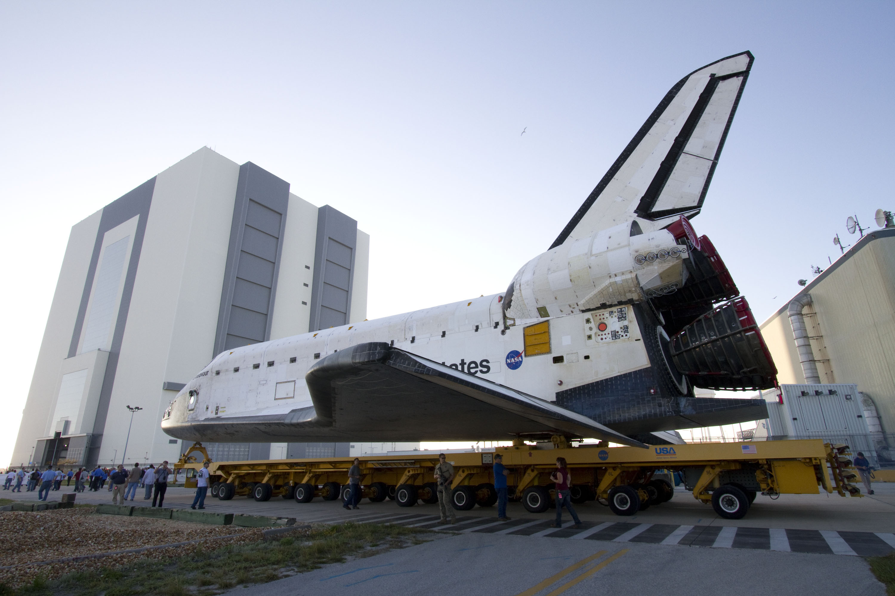 CAPE CANAVERAL, Fla. – At NASA's Kennedy Space Center in Florida, space shuttle Endeavour approaches the Vehicle Assembly Building, or VAB, on its move from Orbiter Processing Facility-2 where it was processed for its final and upcoming STS-134 mission. In the VAB, Endeavour will be lifted into a high bay where it will be joined to its external fuel tank and solid rocket boosters. Endeavour and its STS-134 crew will deliver the Express Logistics Carrier-3, Alpha Magnetic Spectrometer, spare parts, a high-pressure gas tank, additional spare parts for Dextre and micrometeoroid debris shields to the International Space Station. Launch is targeted for April 19 at 7:48 p.m. EDT. For more information visit